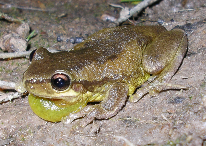 A male Bleating Tree Frog (Litoria dentata), calling during breeding season.